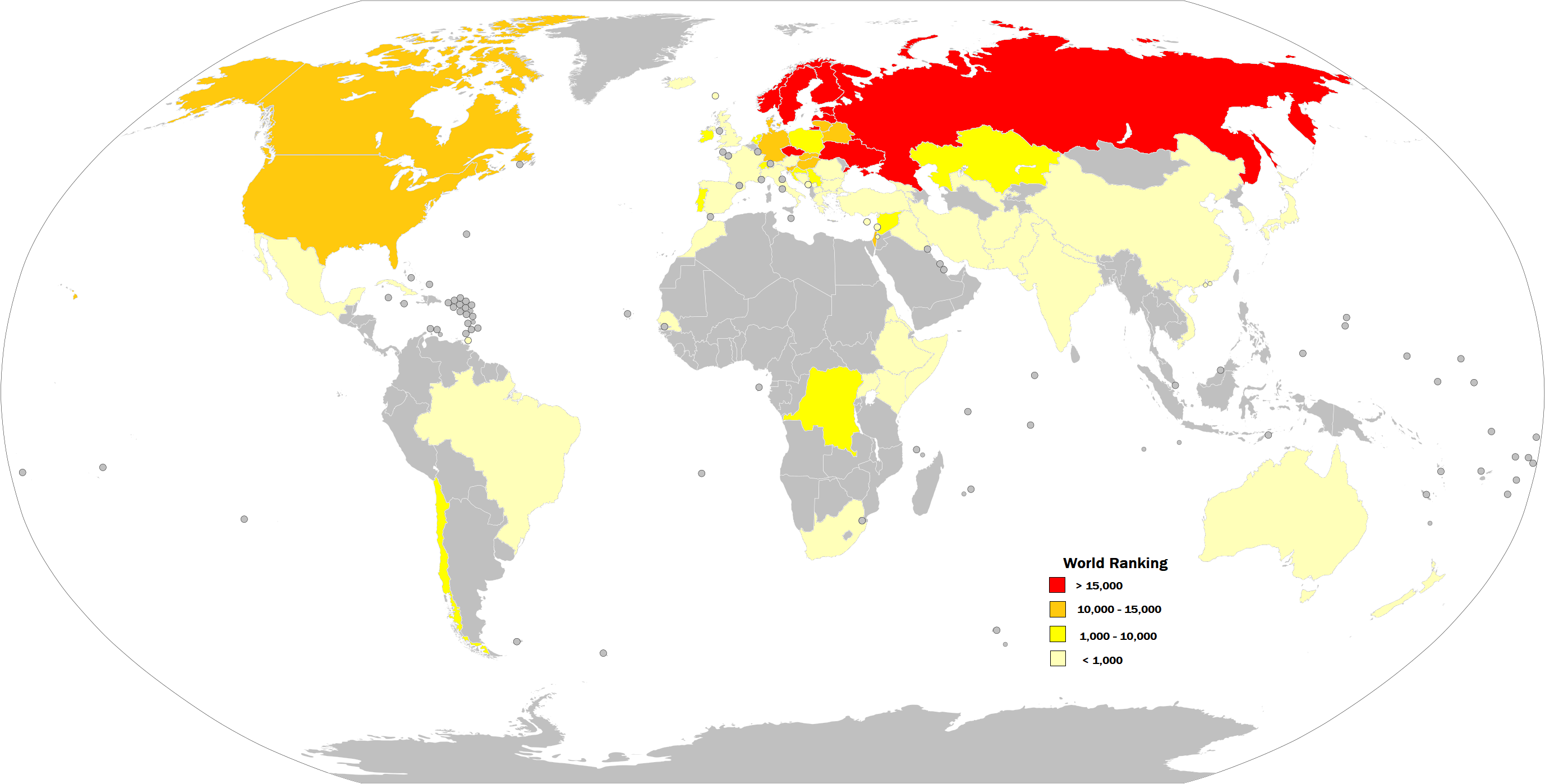 World map showing coutries with at least one player in ITHF table hockey World ranking. Actual at July 2019. Red - Top 8 countries with ranking over 15,000 Orange - Medium 9.-18. countries with ranking over 10,000 Yellow - Moderate 19.-29. countries with ranking over 1,000 Cream - Weak 30.-74. countries with ranking under 1,000 In last two categories, many holders of cityzenship are playing in Western countries.